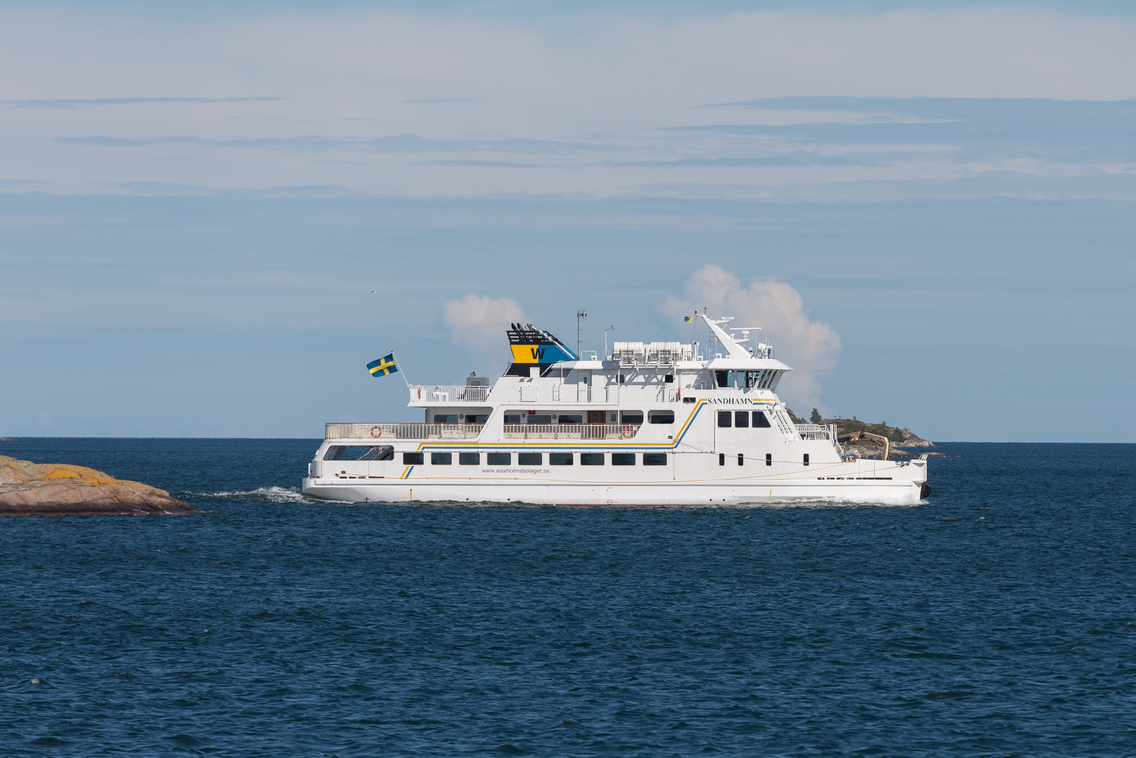 MS Sandhamn crossing Rödkobbsfjärden between Harö and Sandhamn in Stockholm archipelago.